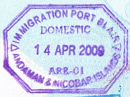 Domestic immigration (Restricted Area Permit) stamp for the Andaman and Nicobar Islands, India. Scanned from own passport. Stamp design is utilitarian and not copyrightable.